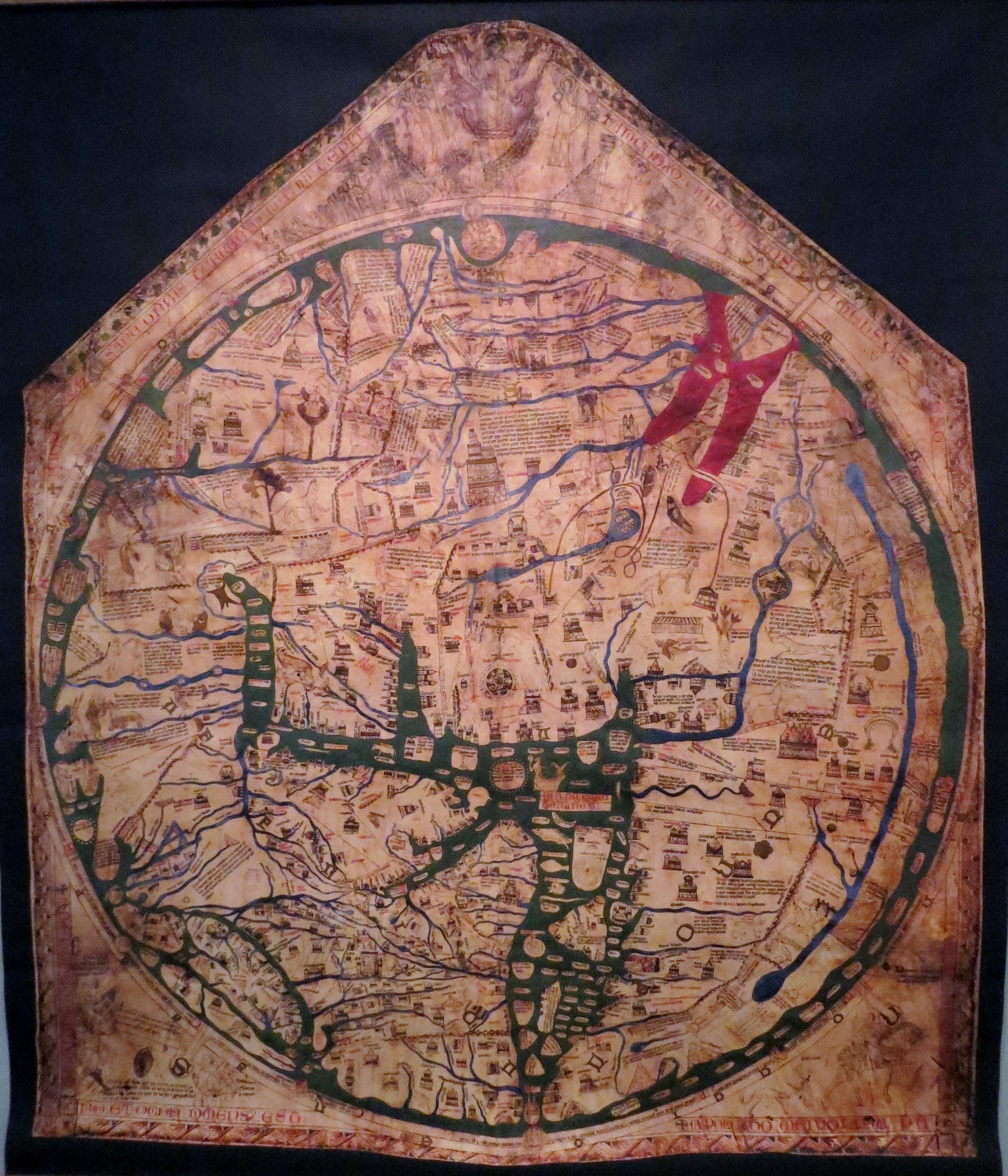 The Hereford map is a mappa mundi, or world map, from the 1300s. It is found abvoe the altar in Hereford cathedral, England. The letters M-O-R-S ("death") are encircling the map, reminding the viewer of his mortality. The map contains lots of mythological information of the depicted places, seen from a Christian perspective. Replica..